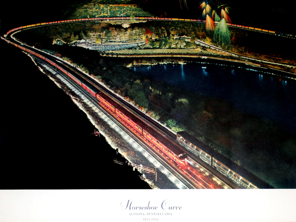 Horseshoe Curve, Altoona, Pennsylvania, USA, 1954 centennial image in railroad museum